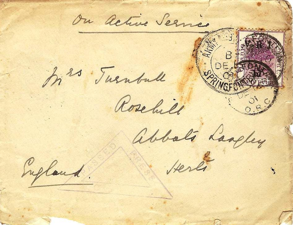 Photo of letter owned by contributor and written by his grandfather Alexander Duncan Turnbull in the Boer War, South Africa, 1901 to his mother in England.Duncanogi (talk) 20:40, 6 July 2009 (UTC)